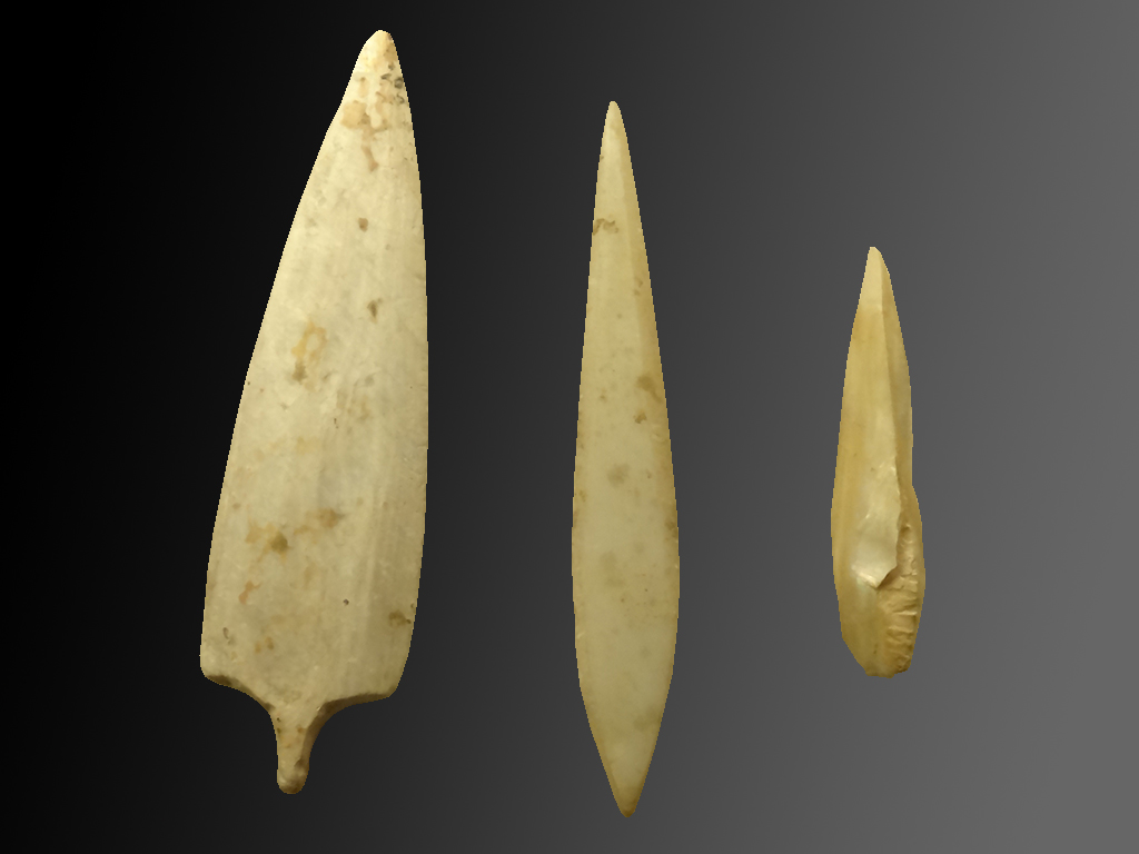 Mussel Arrowheads. Longshan culture, Neolithic Age(4800-4000B.P.). Excavated in Gongyi city and Yanshi city.